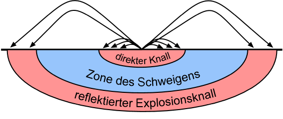 Sound-regions around a explosion